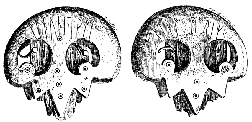 An illustration of the Thorsberg chape from Wimmer's 1887 work Die Runenschrift.